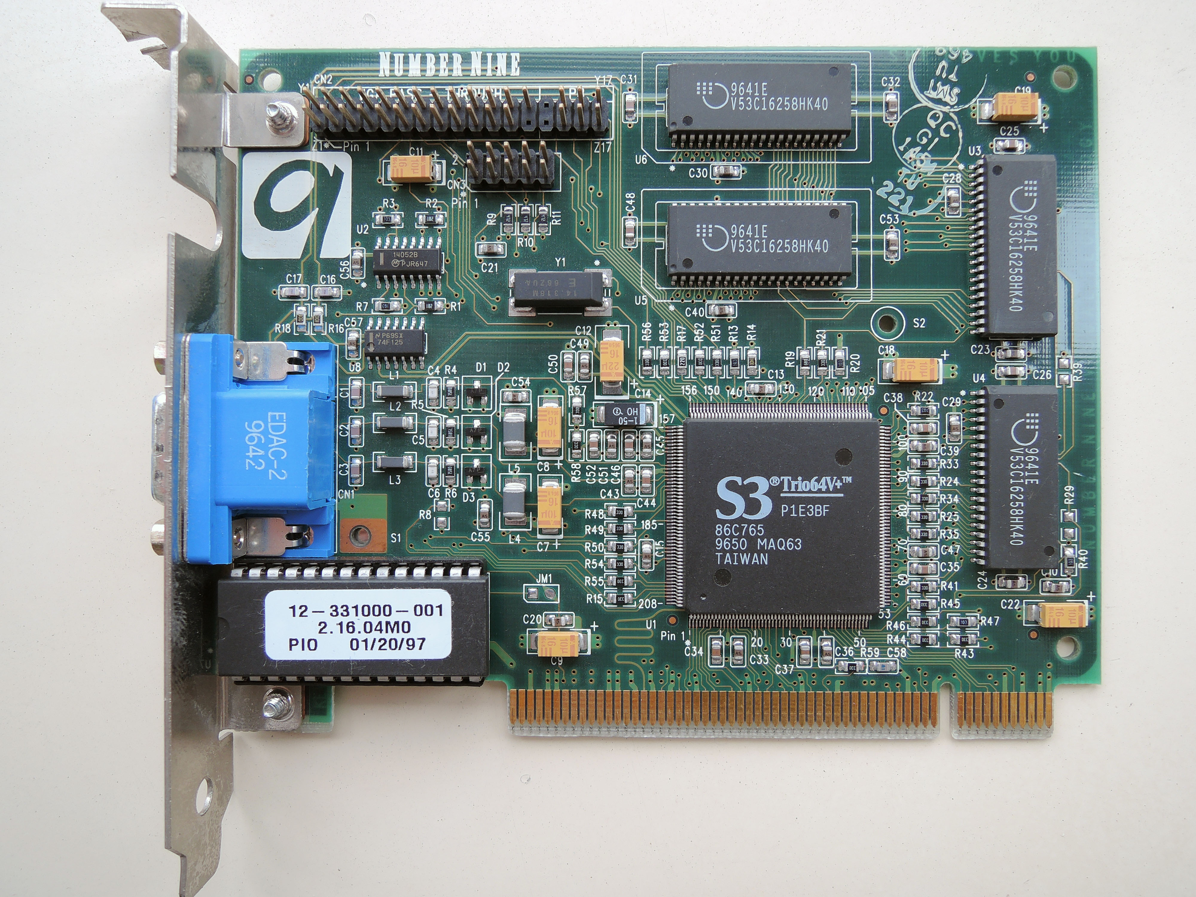 Number Nine Visual Technology Motion 331 PCI video card (S3 Trio64V+ video chip). You can see SHE LOVES YOU (refer to Beatles song) on the upper-right corner of the card.